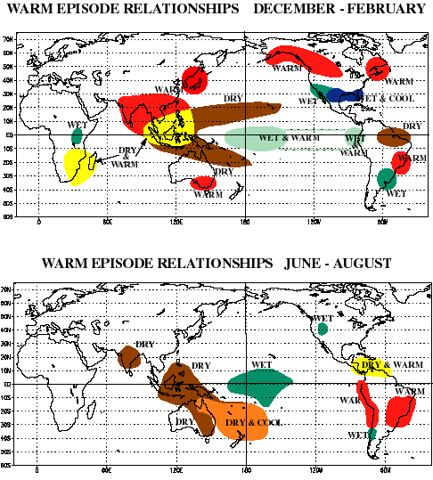 During warm ENSO episodes the normal patterns of tropical precipitation and atmospheric circulation become disrupted. Related image: Image:La Nina regional impacts.gif